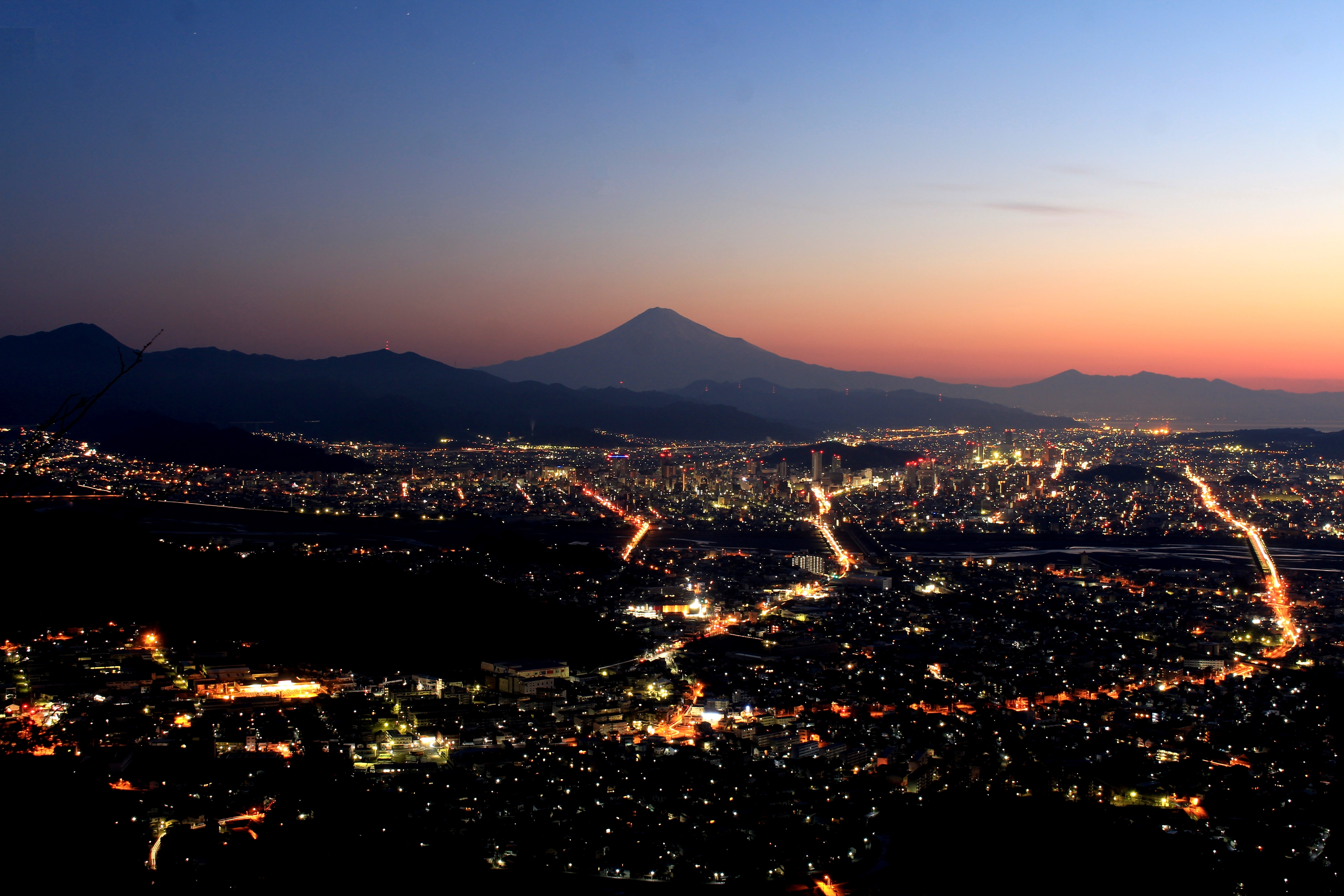 Shizuoka City, Mount Fuji and Ashitaka Mountains seen from Choseniwa in Shizoka prefecture, Japan before sunrise.